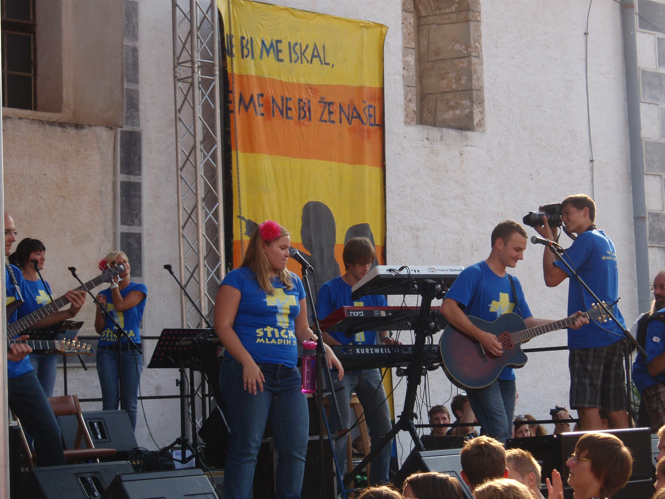 Stična band, Stična mladih 2011